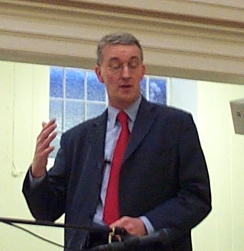 Hilary Benn, Oxford, 2005-01-27. Copyright © 2005 Kaihsu Tai.